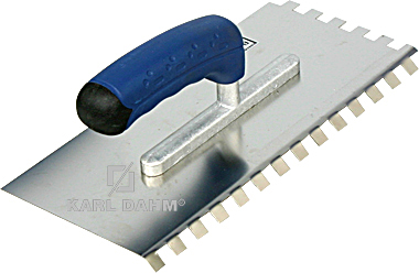 Adhesive trowel (angled, square notched).